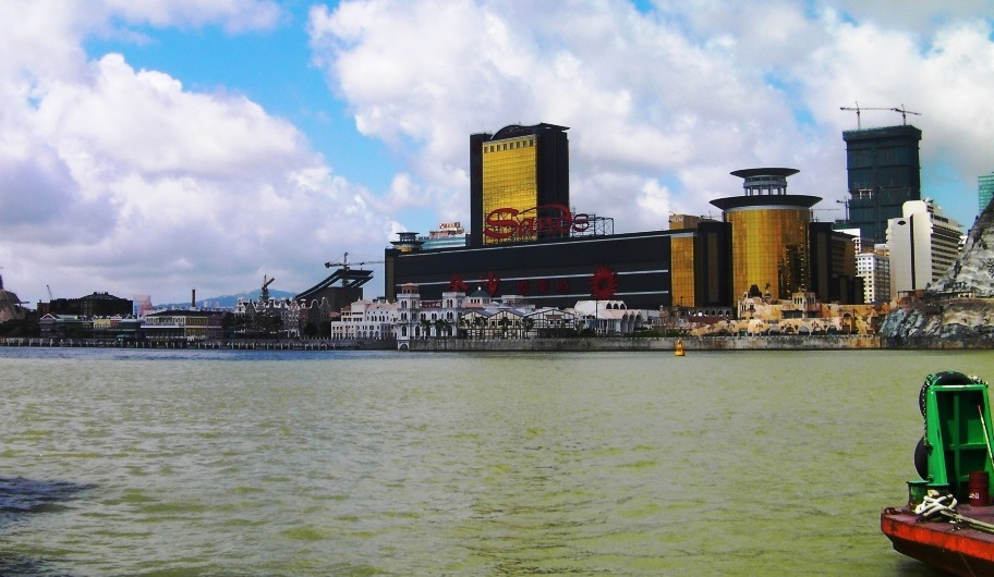 Taken by myself on a trip to Macao